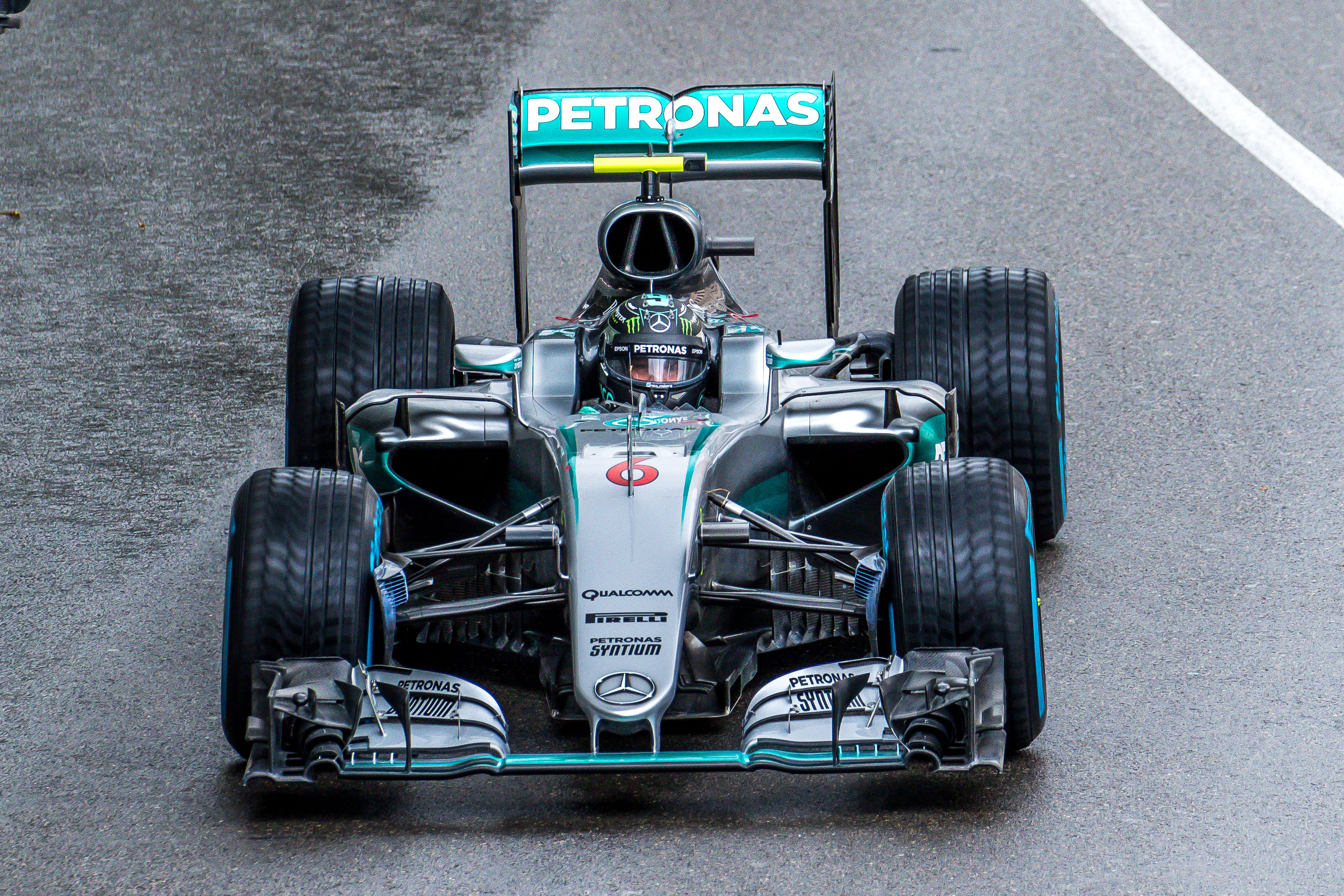 Nico Rosberg at the 2016 Monaco Grand Prix